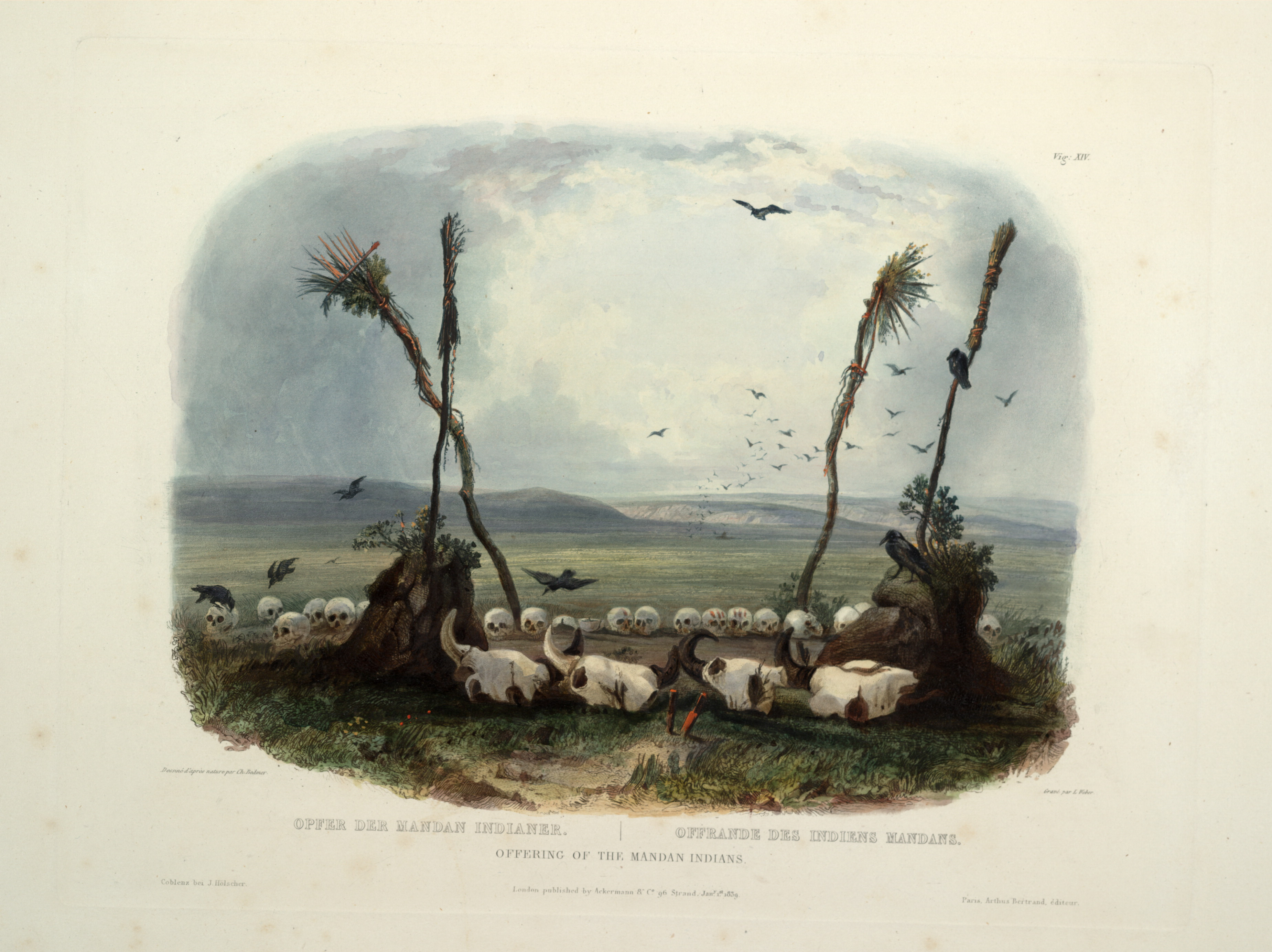 Offering of the Mandan indians